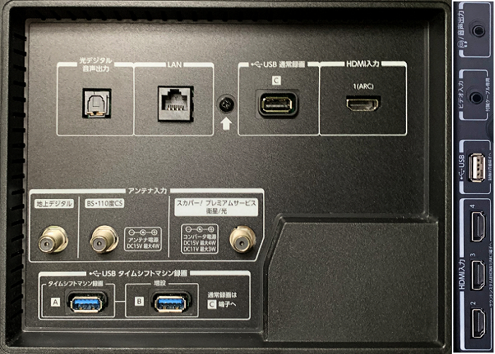 Regza Z Series Back Panel Interface (2020)